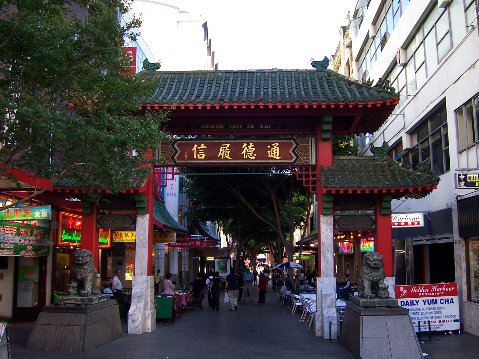 Chinatown, Sydney Taken by Enoch Lau on 17 November 2005. As a courtesy, please let me know if you alter this image or this image description page. Original filename was 100_0627.JPG.